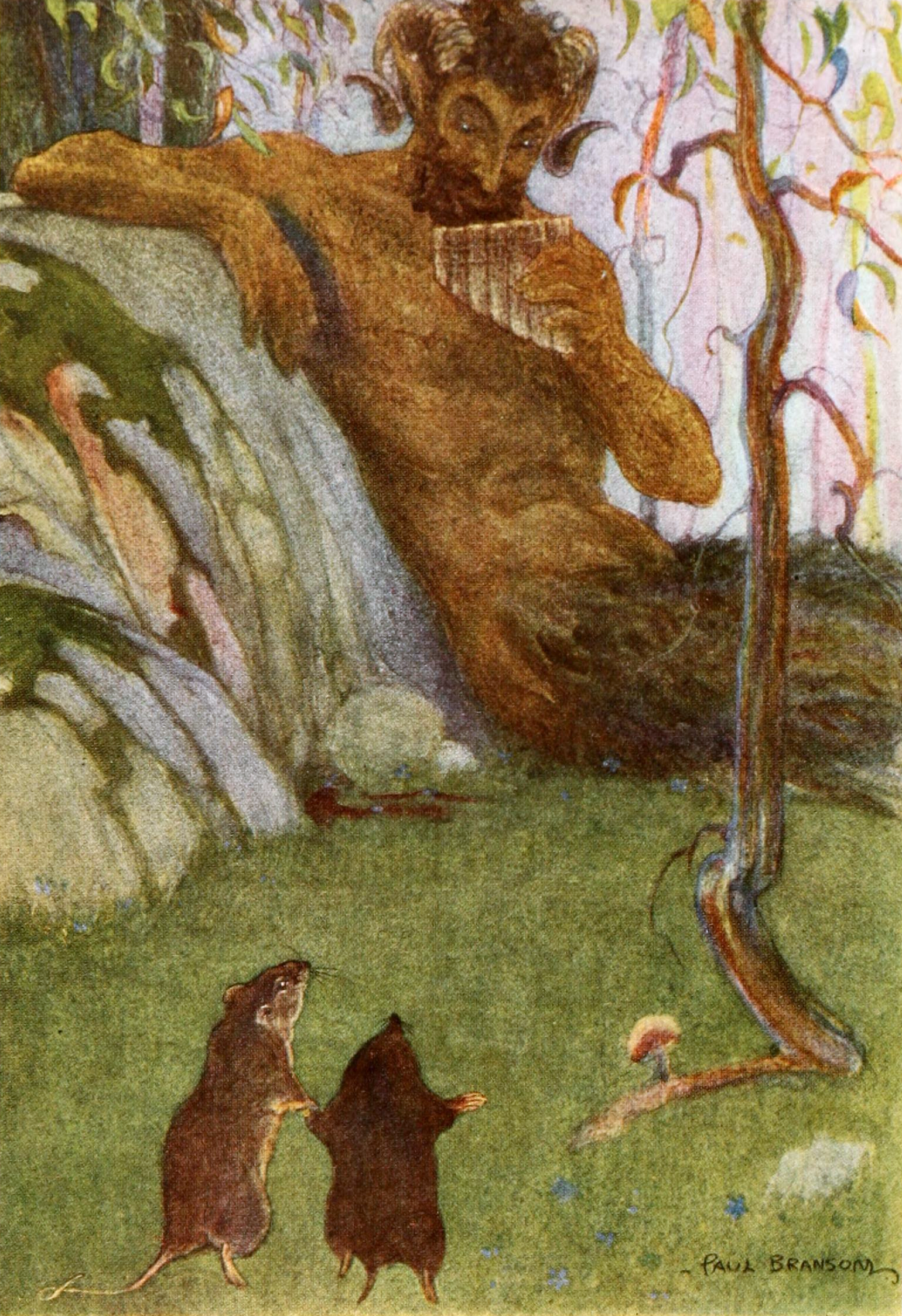 Frontispiece to illustrated edition of a story, the removed caption was "The Piper at the Gates of Dawn"